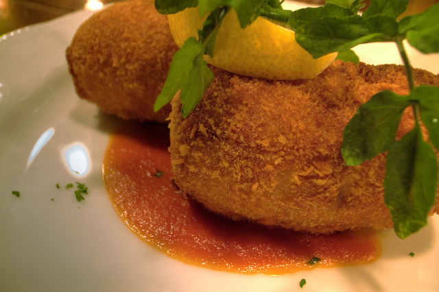 raw2hdr See where this picture was taken. [?] [MAP by ALPSLAB]